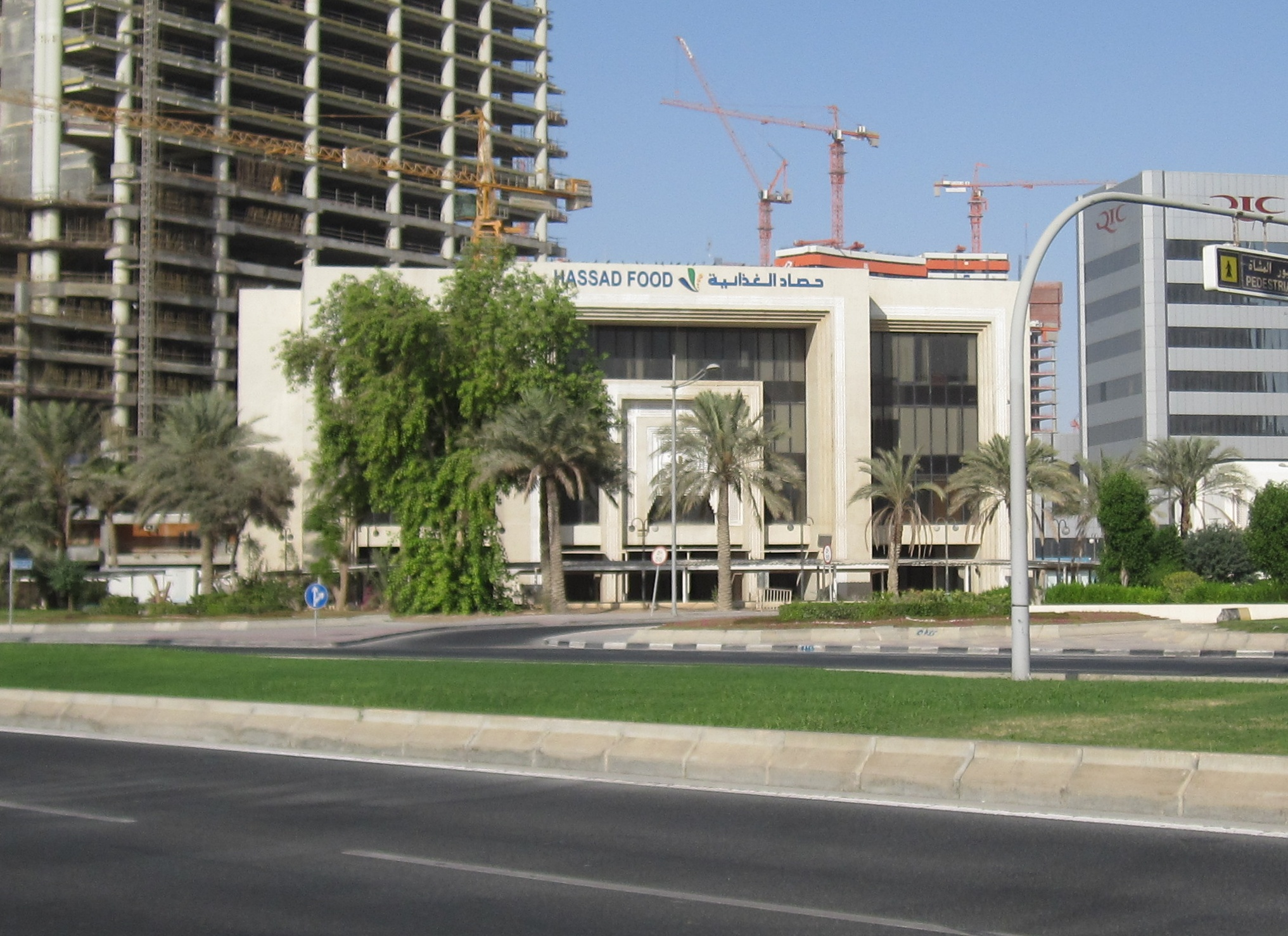 Hassad Food, Al Corniche, Doha